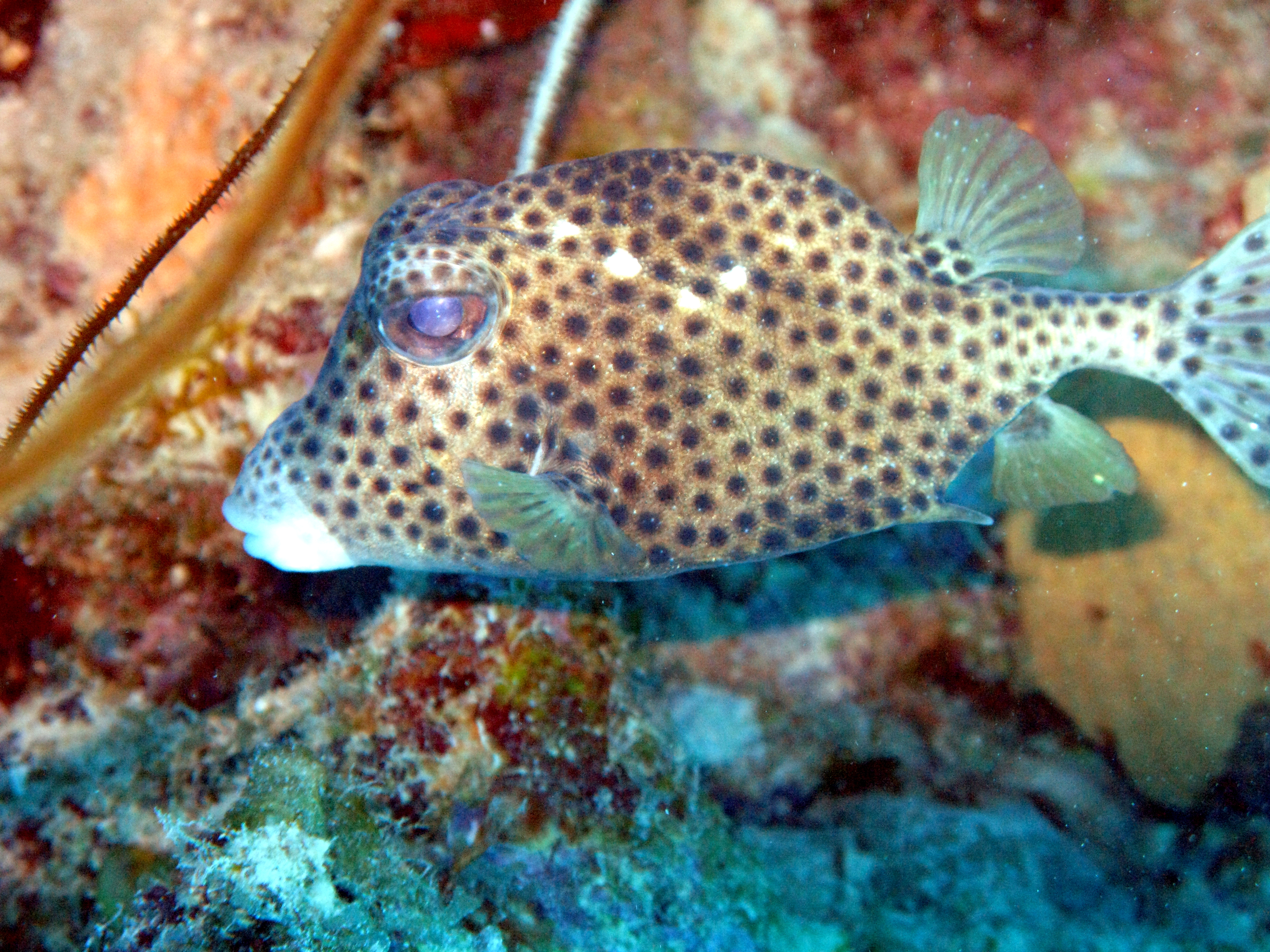 Photograph of a spotted trunkfish, Lactophrys bicaudalis